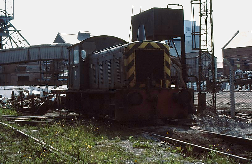 Ex BR D2229 ,now NCB No 5 at Manton Wood Colliery